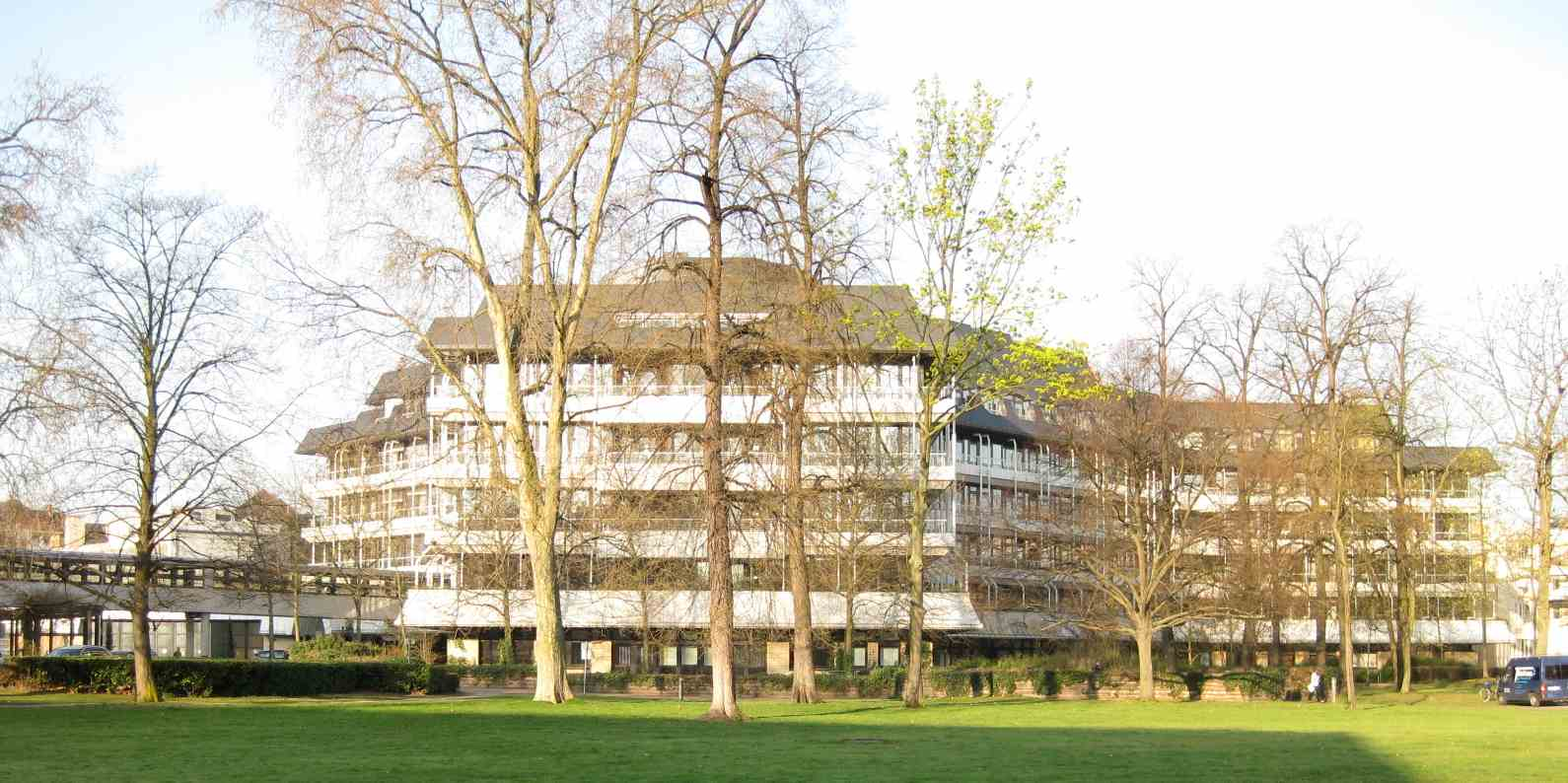 University hospital Mannheim, building 1